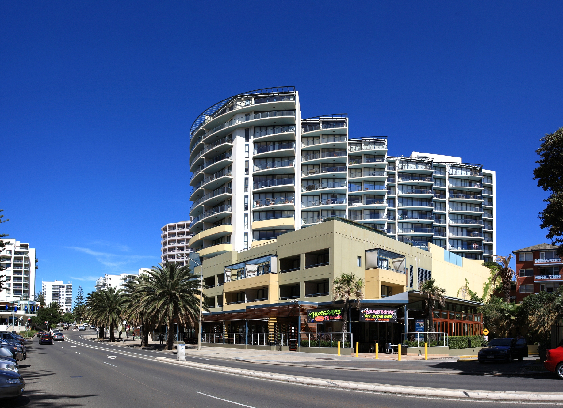 Northies Cronulla Beach, new south wales